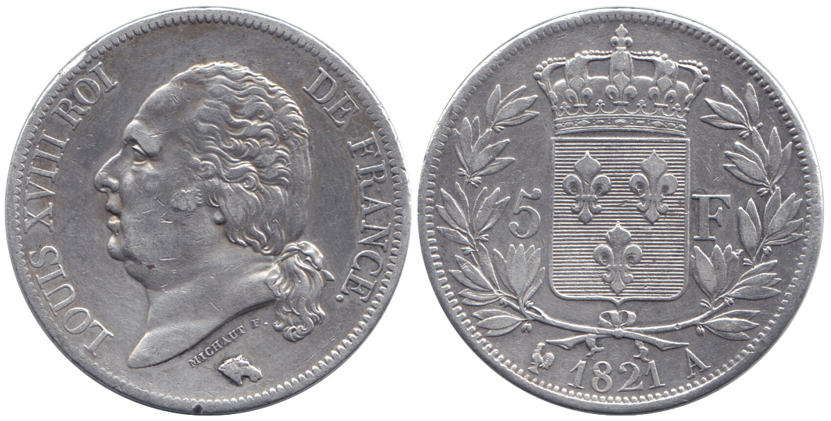 France, coin 5 francs, 1821 - Louis XVIII. Silver 900 Diameter 37.1 mm, thickness 2.2 mm, weight 24.81 gr. Minted in Paris. Grever Auguste-Francois Michaud. Sign on the edge: "DOMINE SALVUM FAC REGEM".